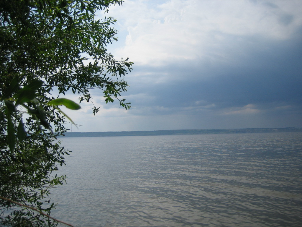 Saratov Reservoir, 8 km from Balakovo.